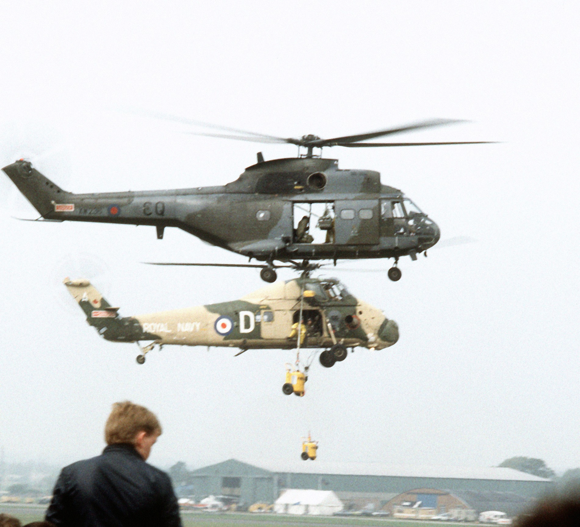 Two British helicopters during a fire fighting demonstraion flight at the Farnborough Airshow at RAF Farnborough, Hampshire (UK), on 11 September 1982. The helicopter nearer to the camera is a Royal Air Force Aerospatiale SA330 Puma HC1 (s/n XW236) from No. 33 Squadron, RAF. The other helicopter is a Royal Navy Westland Wessex HU5 (s/n XS482). It carries the 845 Naval Air Squadron squadron code "D" and the deck code "A" for the commando carrier HMS Albion (R07) (which was decommissioned in 1973). XS482 was assigned to the Farnborough Apprentice Training Department on 20 March 1986 and is today preserved at the RAF Manston History Museum, Kent (UK).